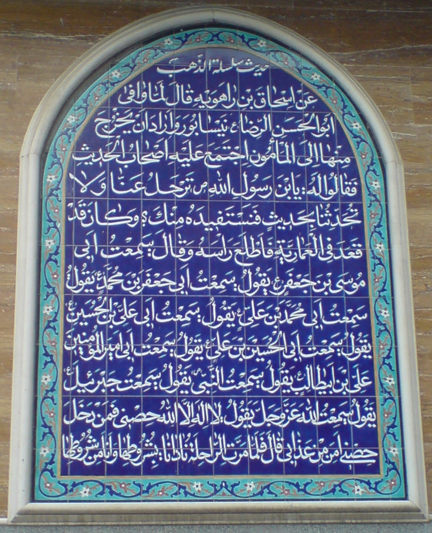 Tilings of a Hadith on a Wall at Nishapur